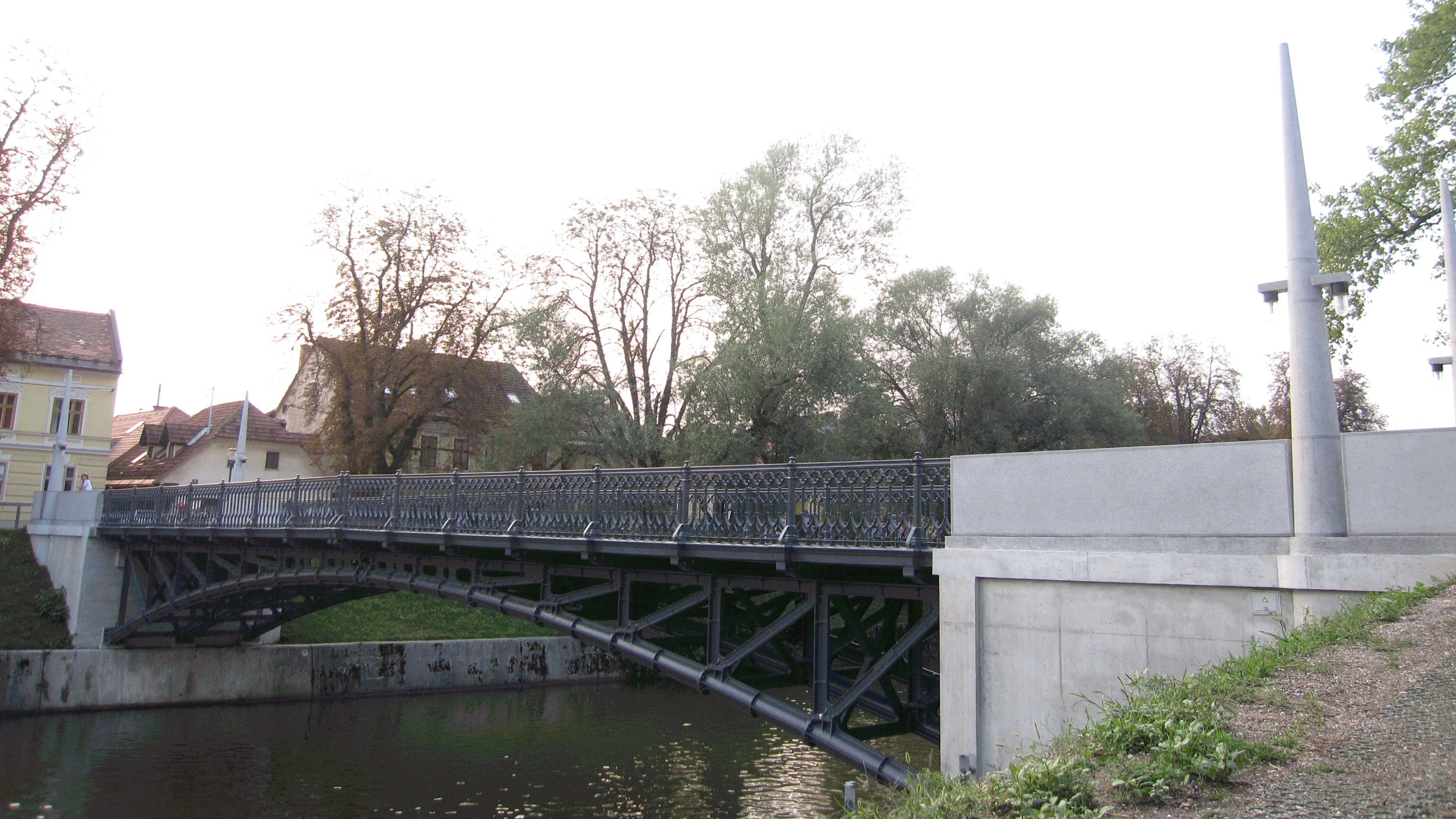 Hradecki bridge Ljubljana - construction elements. Work of Johann Hermann, 1867.